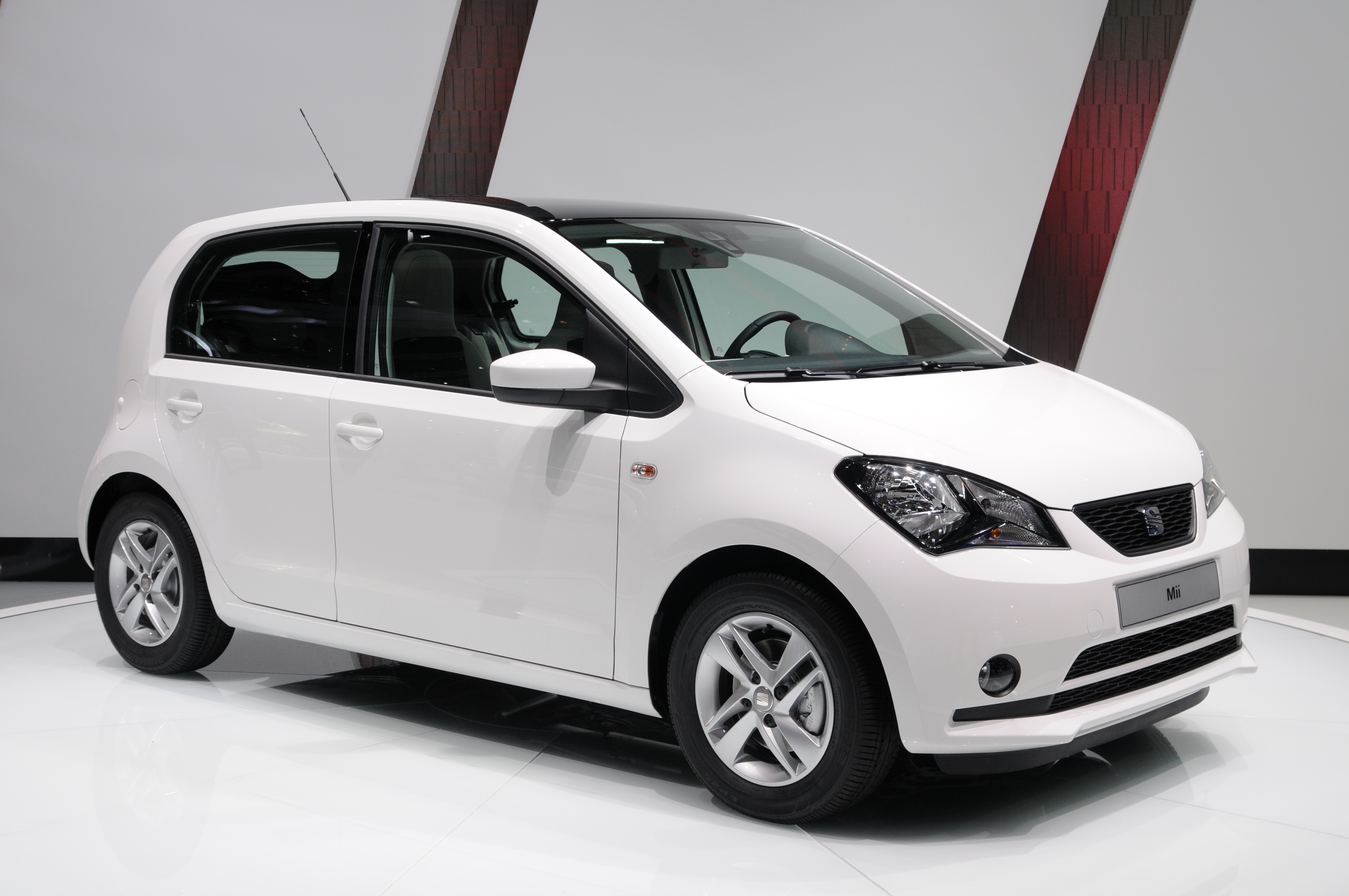 Geneva Motor Show 2012 (photos taken on the second press day)